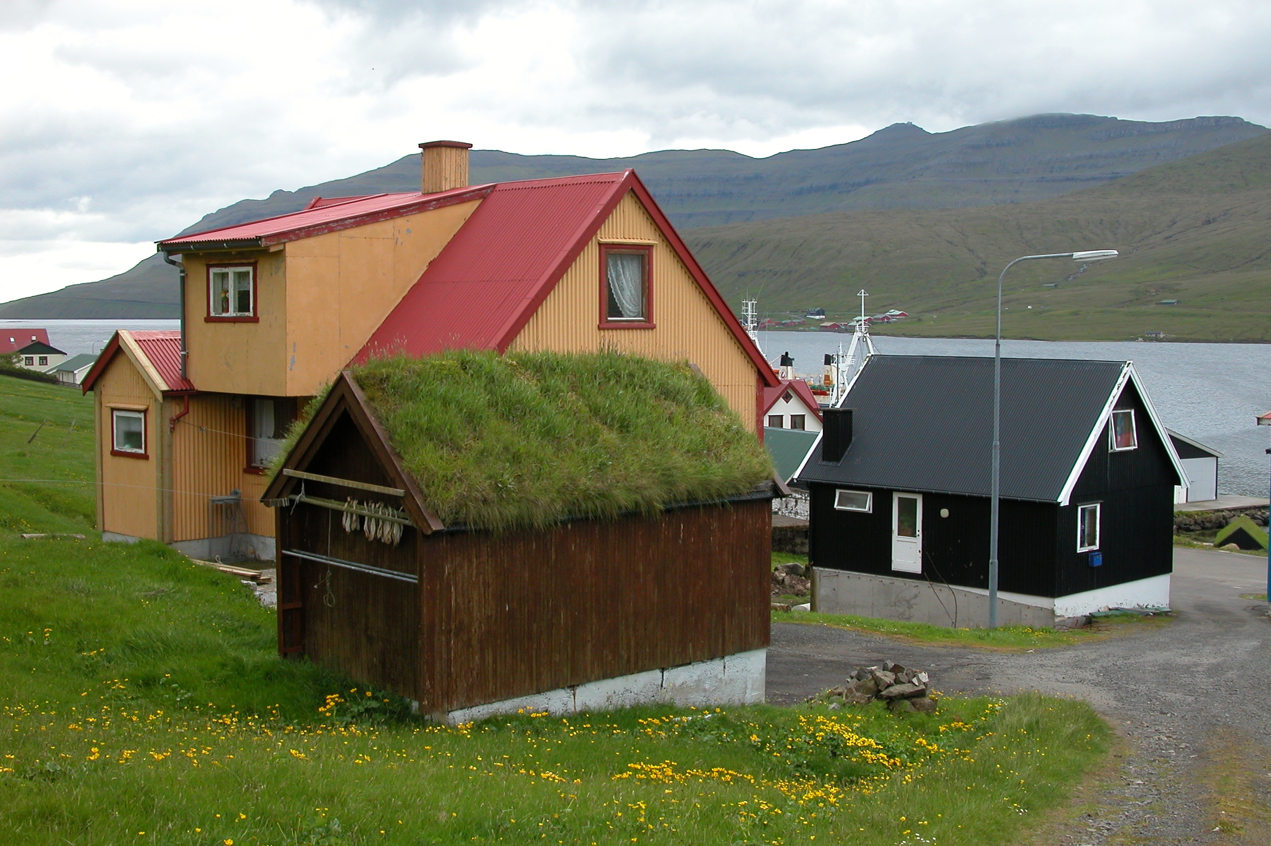 Oyri, Eysturoy, Faroe Islands